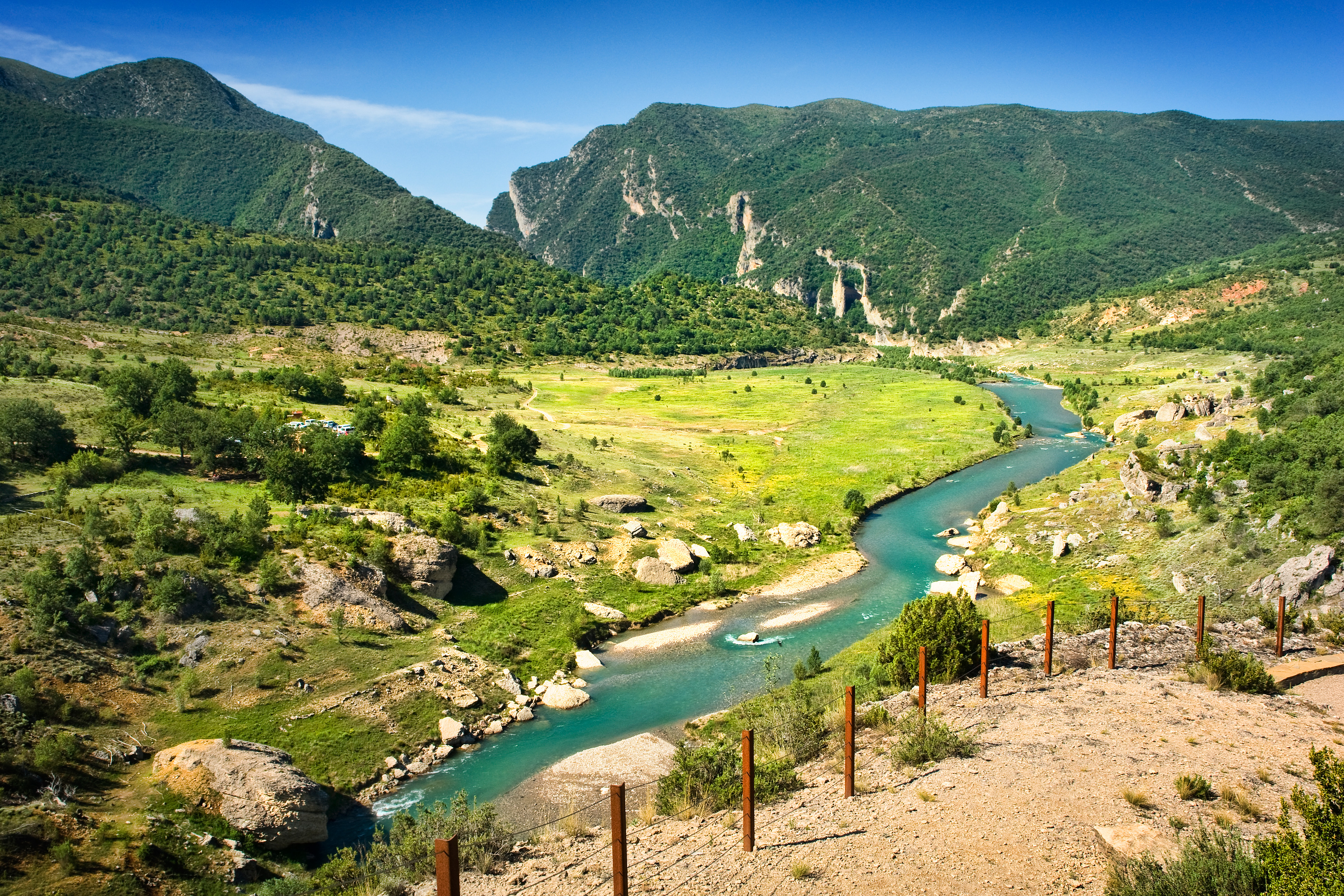 River Noguera Ribagorçana entering the canyon of Mont-rebei This is a a photo of a natural area in Catalonia, Spain, with id: ES510055